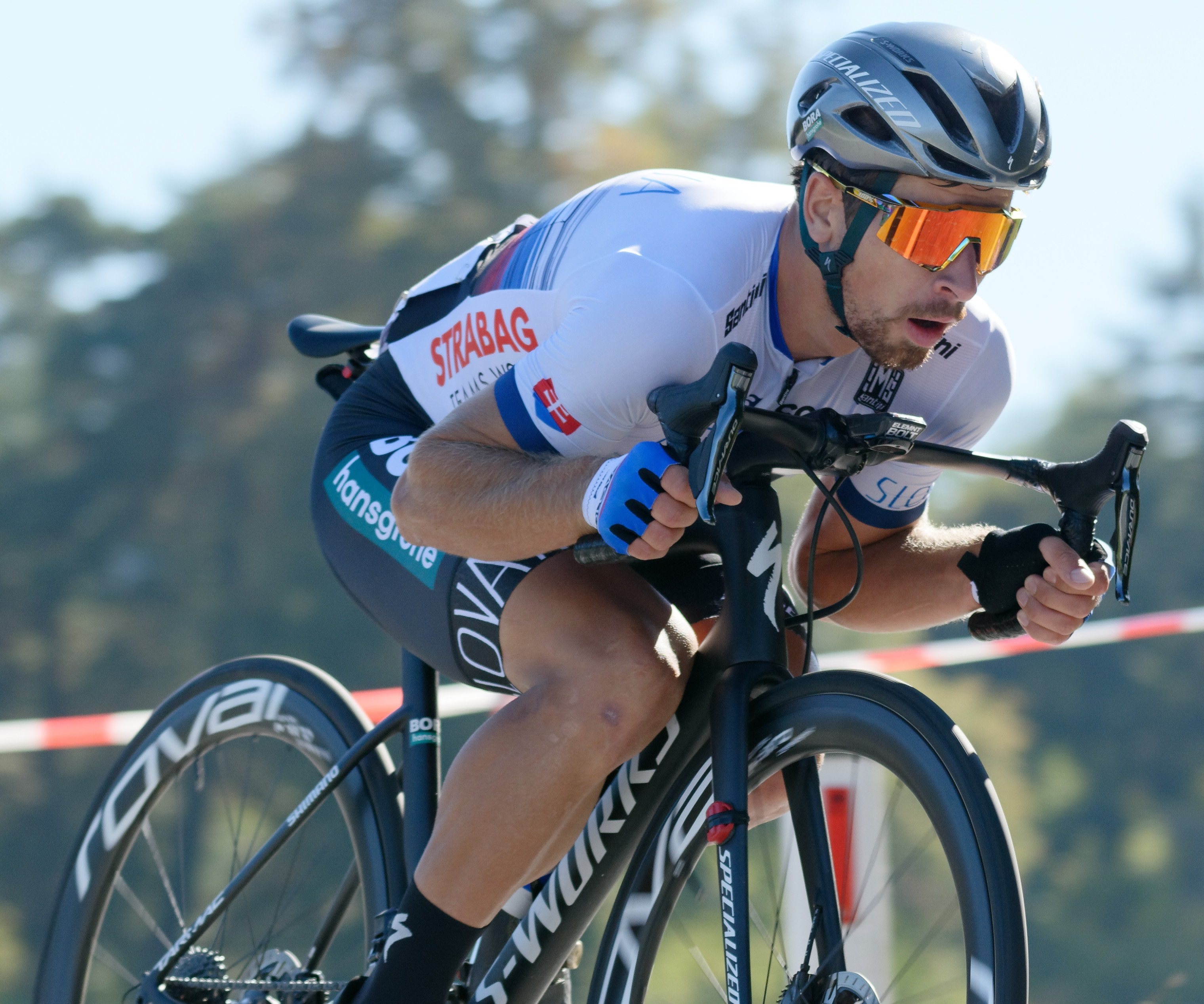 Peter Sagan during the 2018 UCI Road World Championships in Innsbruck